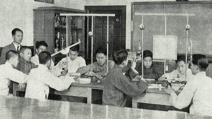 1938s in Yaohua